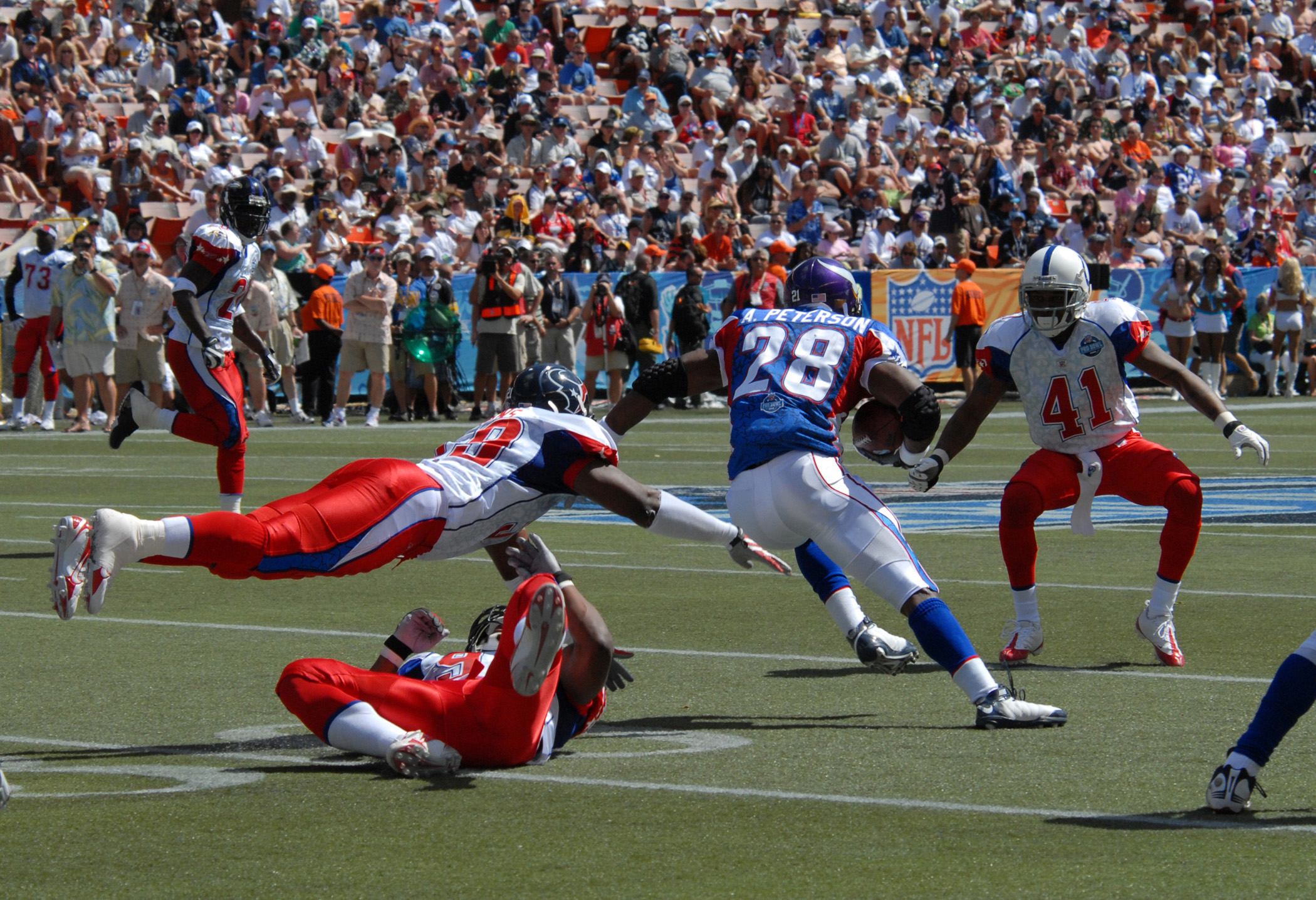 Adrian Peterson, running back for the Minnesota Vikings and National Football Conference (NFC) all-star team, splits defenders during the NFL Pro Bowl game at the Aloha Stadium in Honolulu, Hawaii, Feb. 10, 2008. The NFC defeated the American Football Conference by a score of 42 to 30 and Peterson was named the MVP of the Pro Bowl, after rushing for 129 yards and two touchdowns. (U.S. Navy photo by Mass Communication Specialist 1st Class James E. Foehl) (Released) (Released to Public)